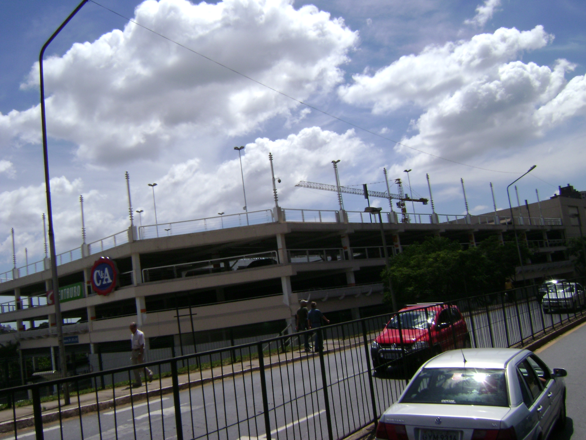 Estacionamento do BH Shopping em reformas.